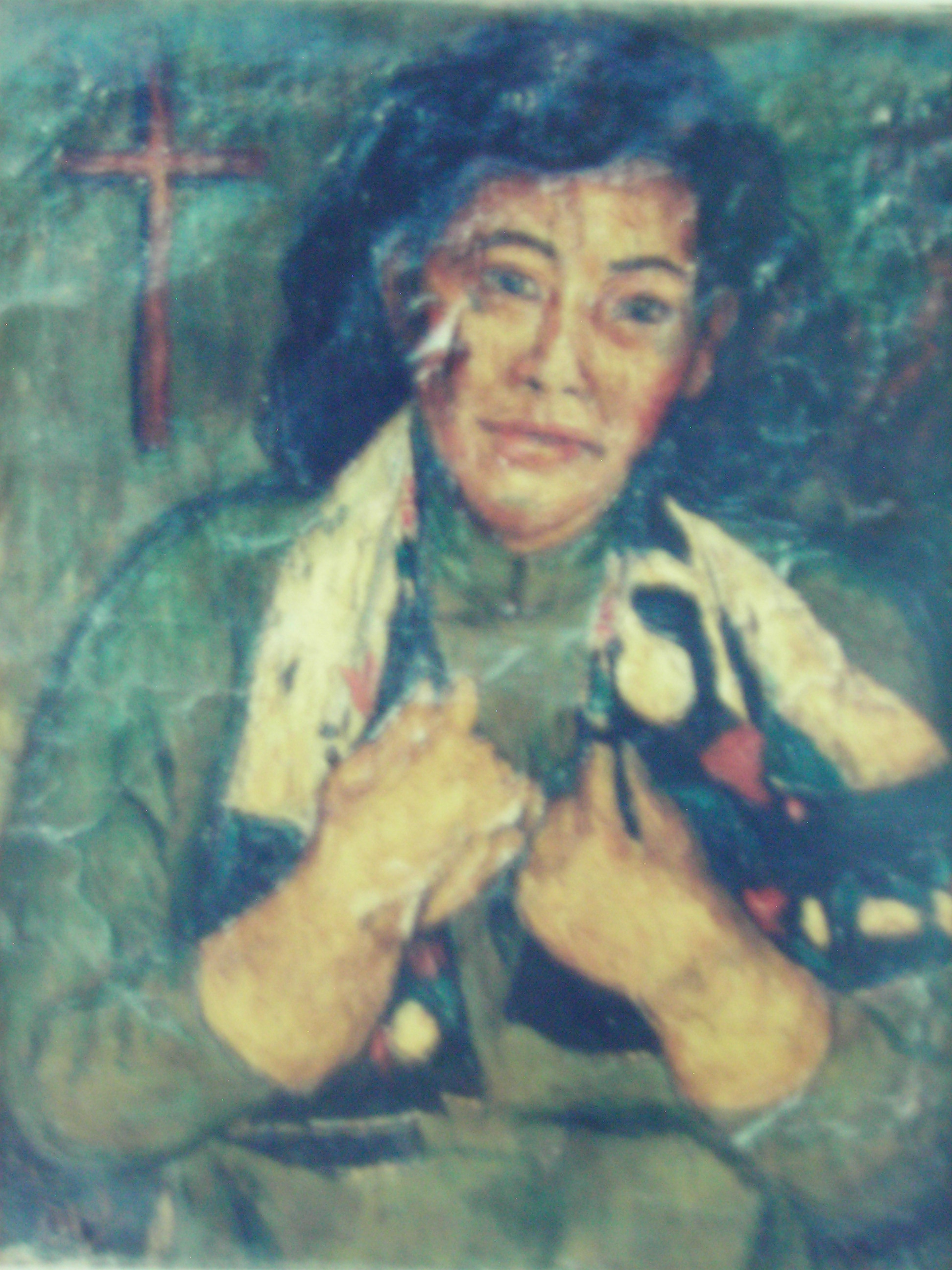 This image photo is taken from the original oil painting (canvas 46x38) of ĐSChu's family collection